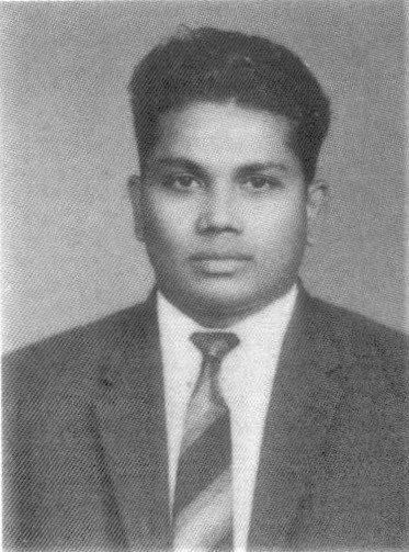 Clergy from Lutheran Church, India